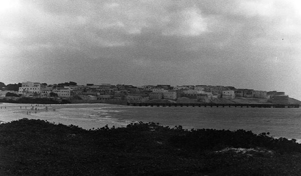 Kismaayo, one of Somalia's leading port cities.